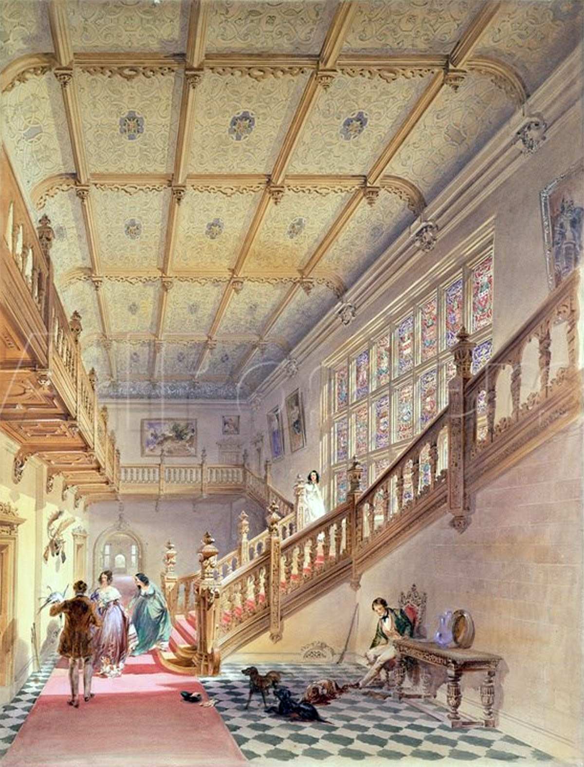 Interior of Beaumanor Hall drawn by the architect William Railton in about 1850